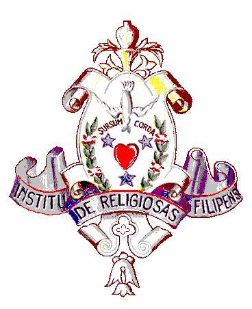 Emblem of religious congregations of Filipenses Misioneras de la Enseñanza, founded 1858, from a devotional print